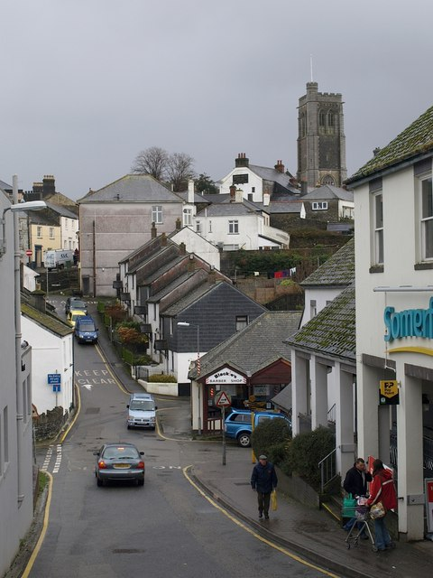 Pondbridge Hill, Liskeard A short hill seen from the junction with Bay Tree Hill and Fore Street, and which continues up the far slope as Cannon Hill. "Unfortunately this view is marred by the gaping holes of demolished buildings and inappropriately scaled and detailed modern developments." . On the right is the modern (1902) tower of St Martin's Church.